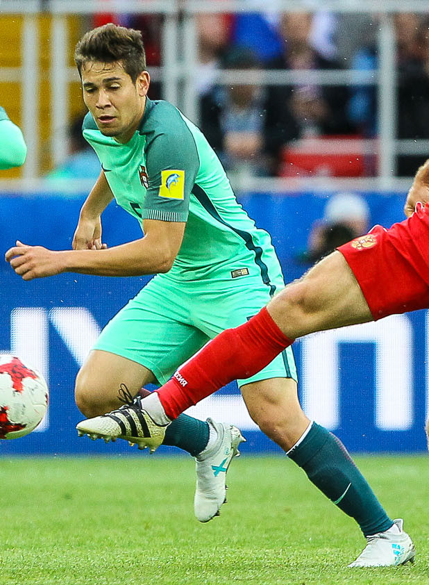 Russia VS. Portugal 0 - 1, 21 June 2017